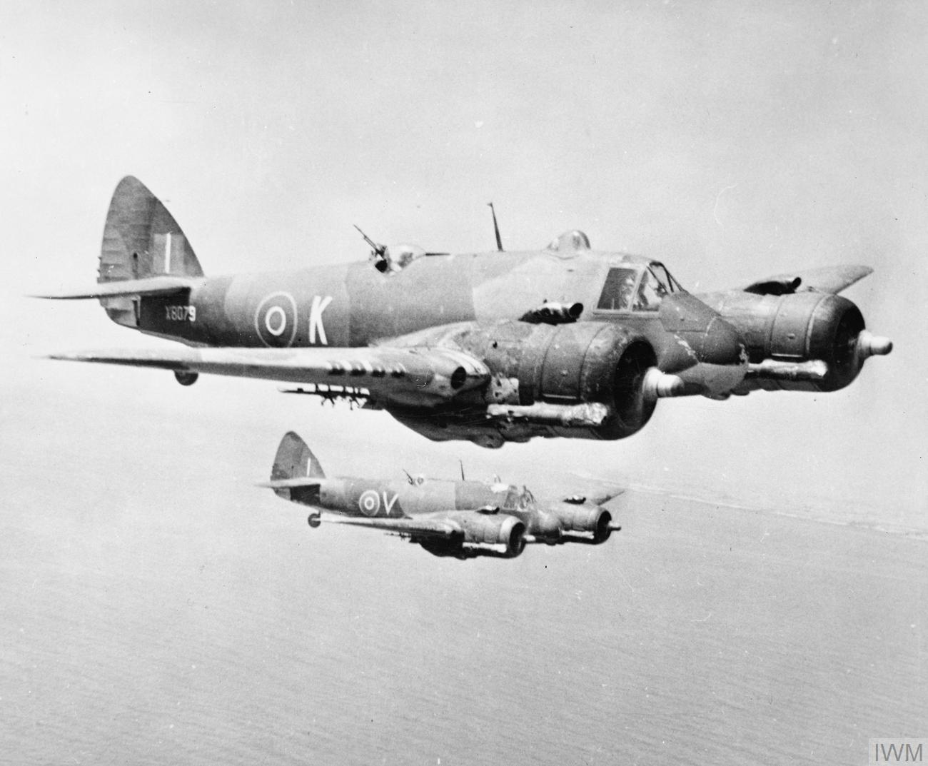 Royal Air Force Operations in Malta, Gibraltar and the Mediterranean, 1939-1945. Bristol Beaufighters of No. 272 Squadron RAF in flight over Malta. Nearest the camera is a Mark VIC, X8079, 'K', which was shot down by German fighters off Maritime Island on 22 May 1943, Behind X8079 is Mark IC, T5043 'V'. The Squadron flew from both Luqa and Ta Kali during this period.